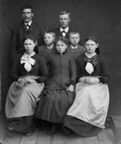 Efsta röð: Björn Eiríksson og Guðni Eiríksson. Miðröð: Þorleifur Stefánsson (fóstursonur Eiríks á Karlsskála) og Helgi Eiríksson. Fremsta röð: Guðný gift Patursson, Hansína gift Ben. Þór og Steinunn gift séra Ólafi Stephensen, dætur Eiríks bónda í Karlsskála.